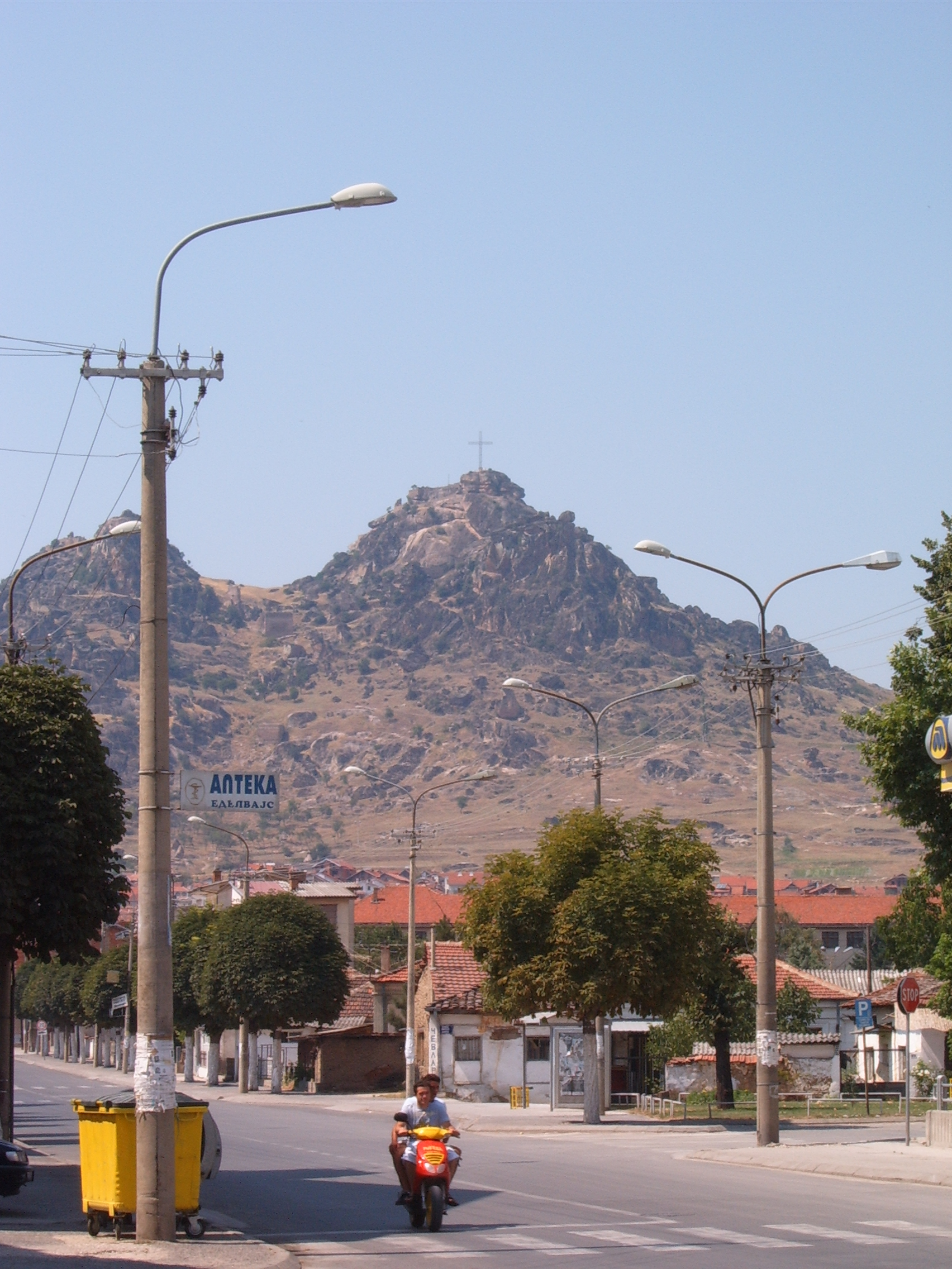 A view of Markovi kuli from a street in Prilep